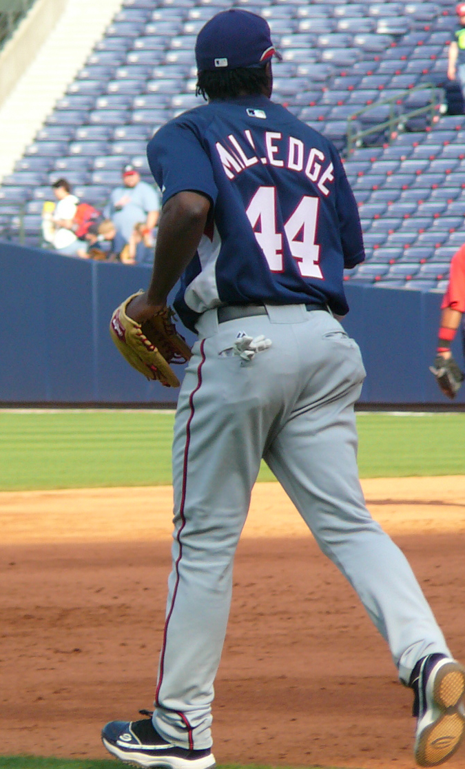 User:Chrisjnelson agreed to license this image of Lastings_Milledge.jpg under a free attribution license. Any use of this image must be attributed; this means that Photo by :en:User:Chrisjnelson|Chris Nelson should be in the picture caption. 07:40, 24 April 2008 . . Chrisjnelson . . 675×1,116 (657 KB)